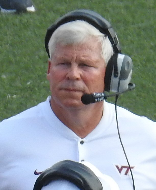 James Shibest, the Virginia Tech Hokies' special teams and tight end coach, during Virginia Tech's 2018 game at Old Dominion University.